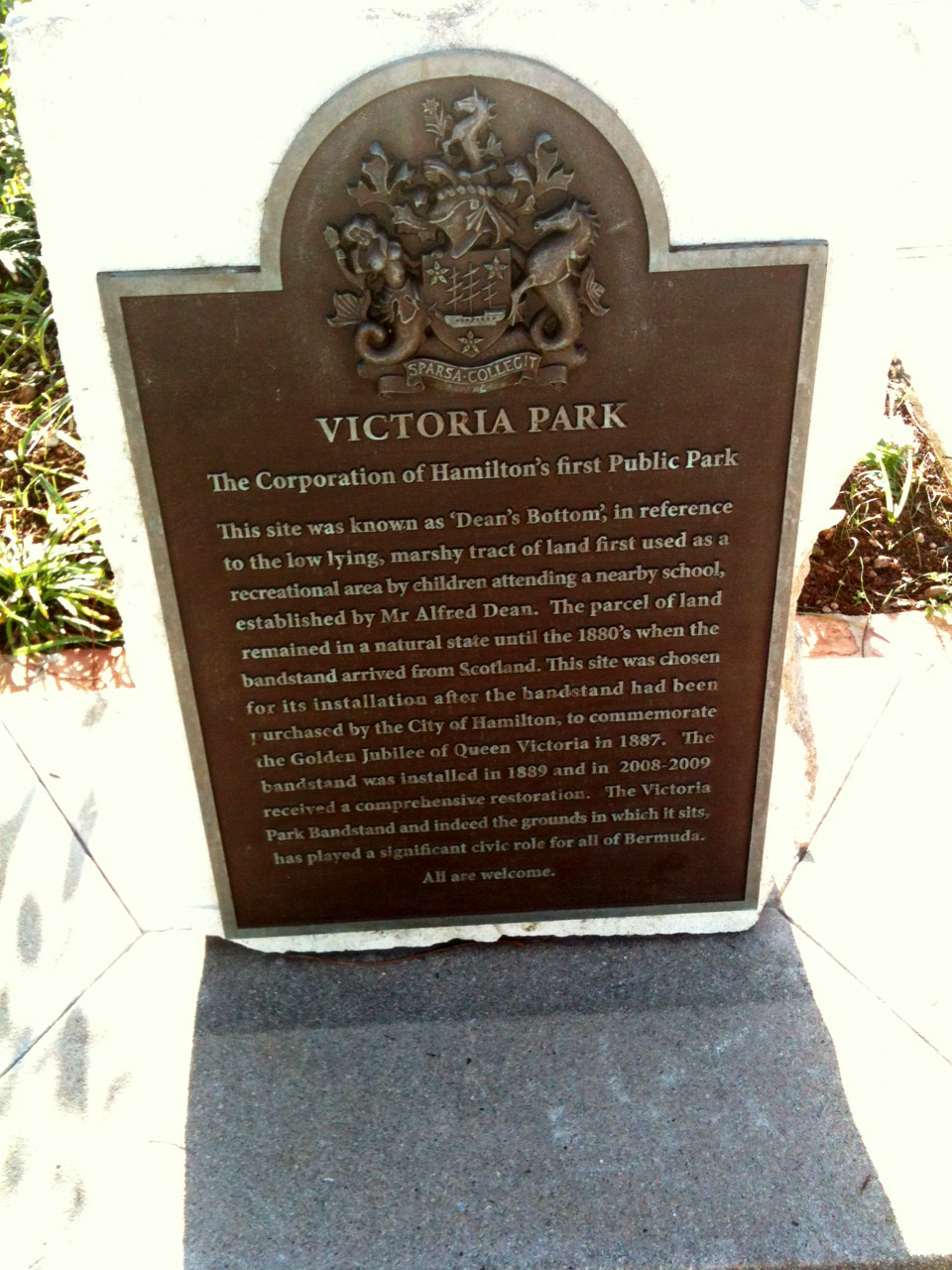 Plaque located just inside the north-west entrance of Victoria Park, Hamilton - Bermuda.